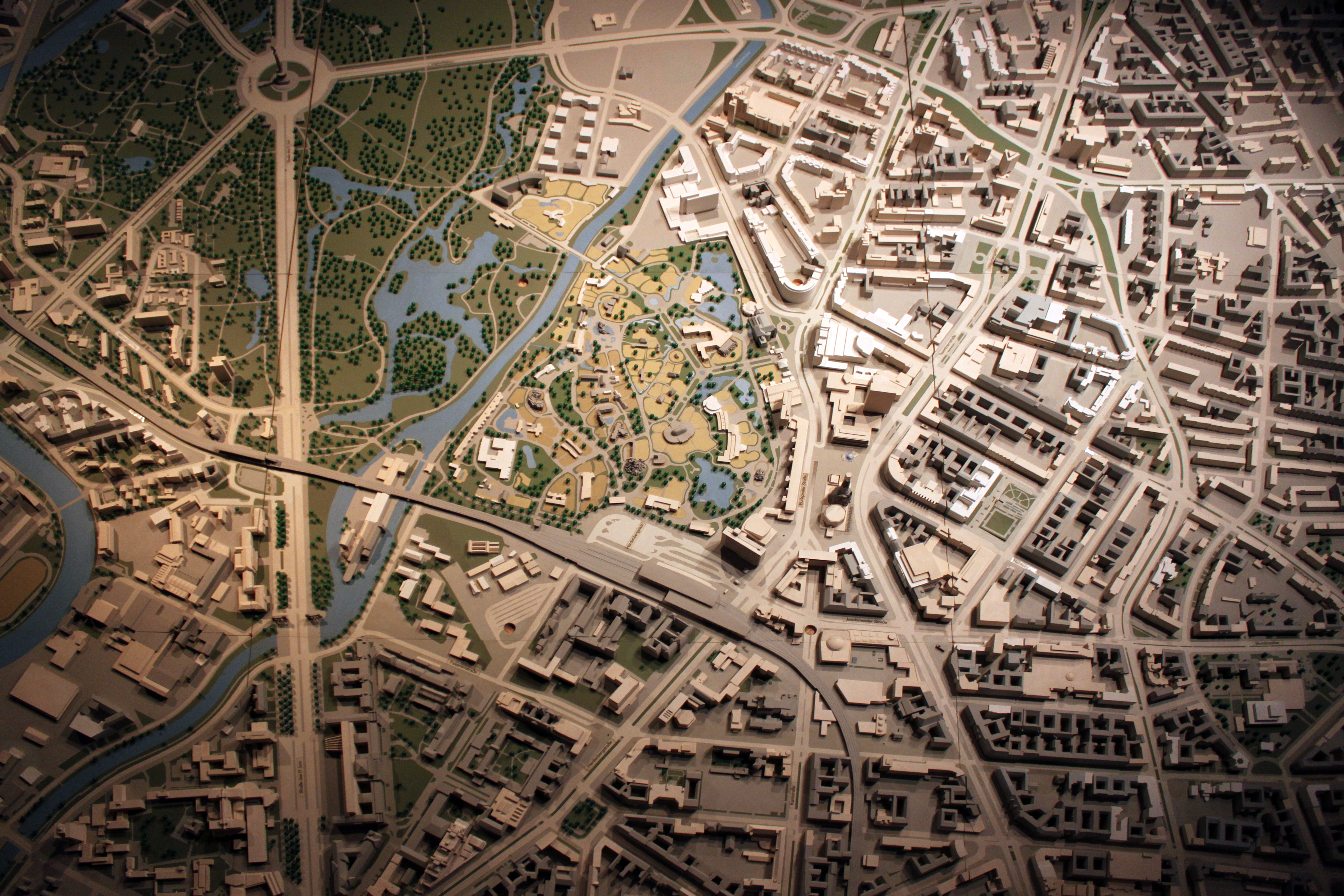 Model of Berlin City West, Märkisches Museum Berlin